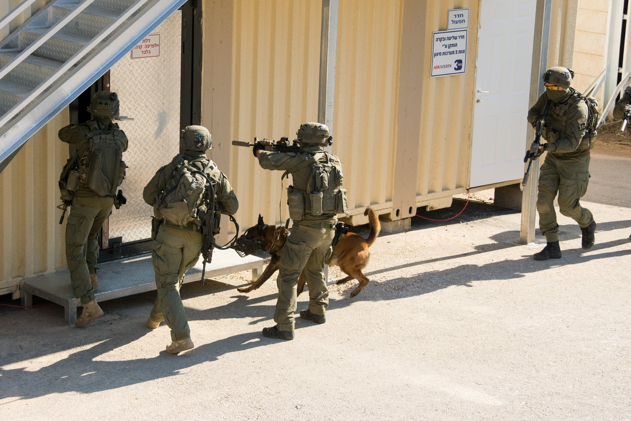 YAMAM - Israeli Police elite counter-terrorism unit, 2018